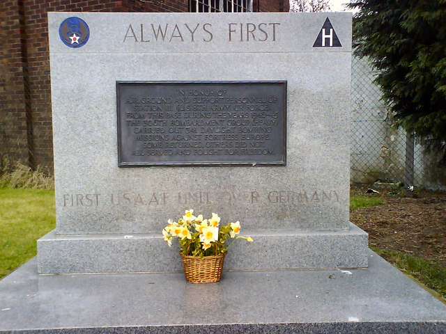 Thurleigh WWII USA Memorial Situated on Keysoe Road on the outskirts of Thurleigh is this memorial to the Air Ground and Support Personnel of Station III of the 306th Bombardment Group (Heavy). Many of the old airfield building and shelters are still visible but mostly derelict.